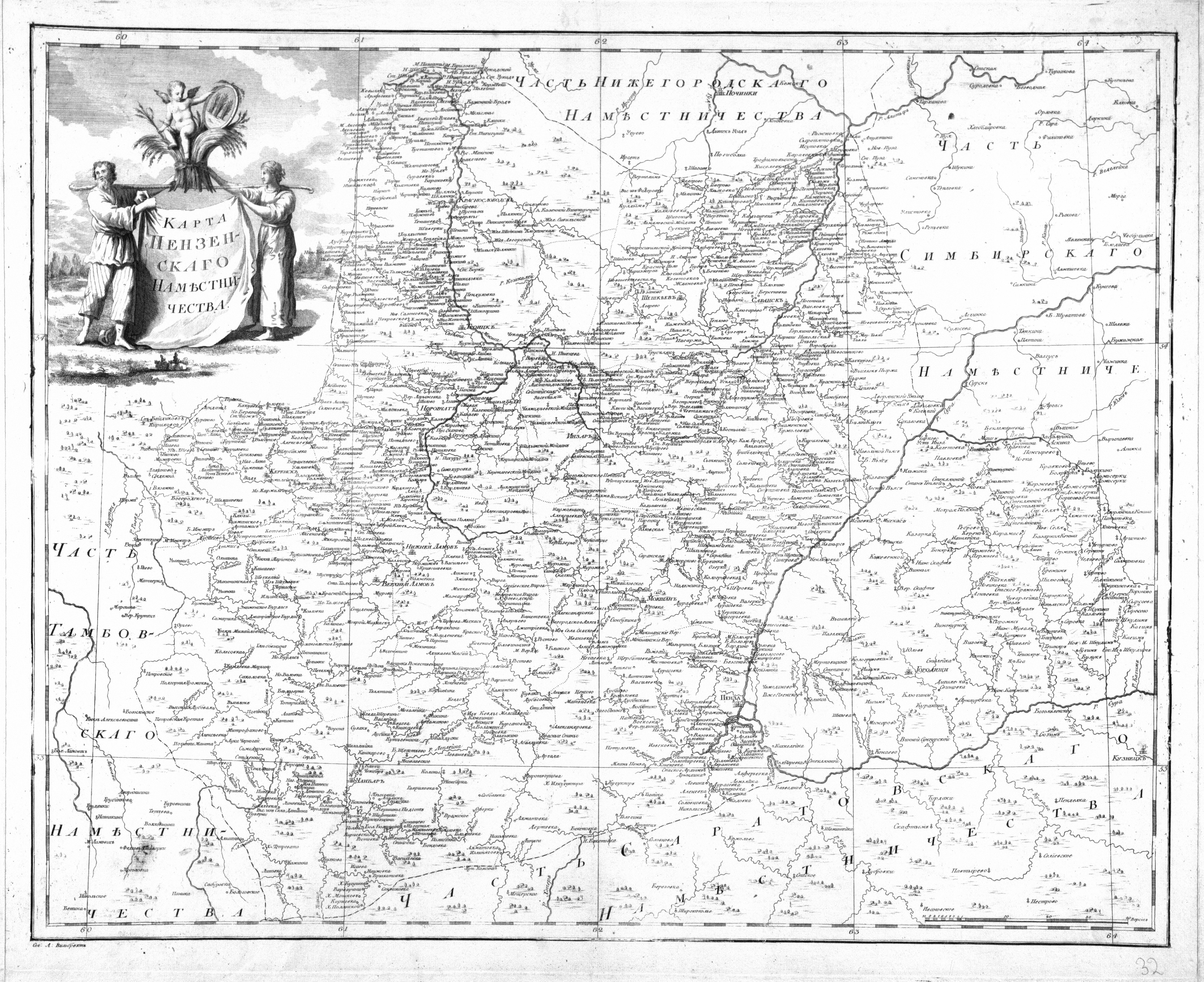 Map of Penza Namestnichestvo (sheet 32) from official Atlas of the Russian Empire (1792).